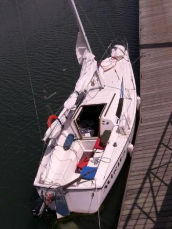 Hunter 23 sailboat